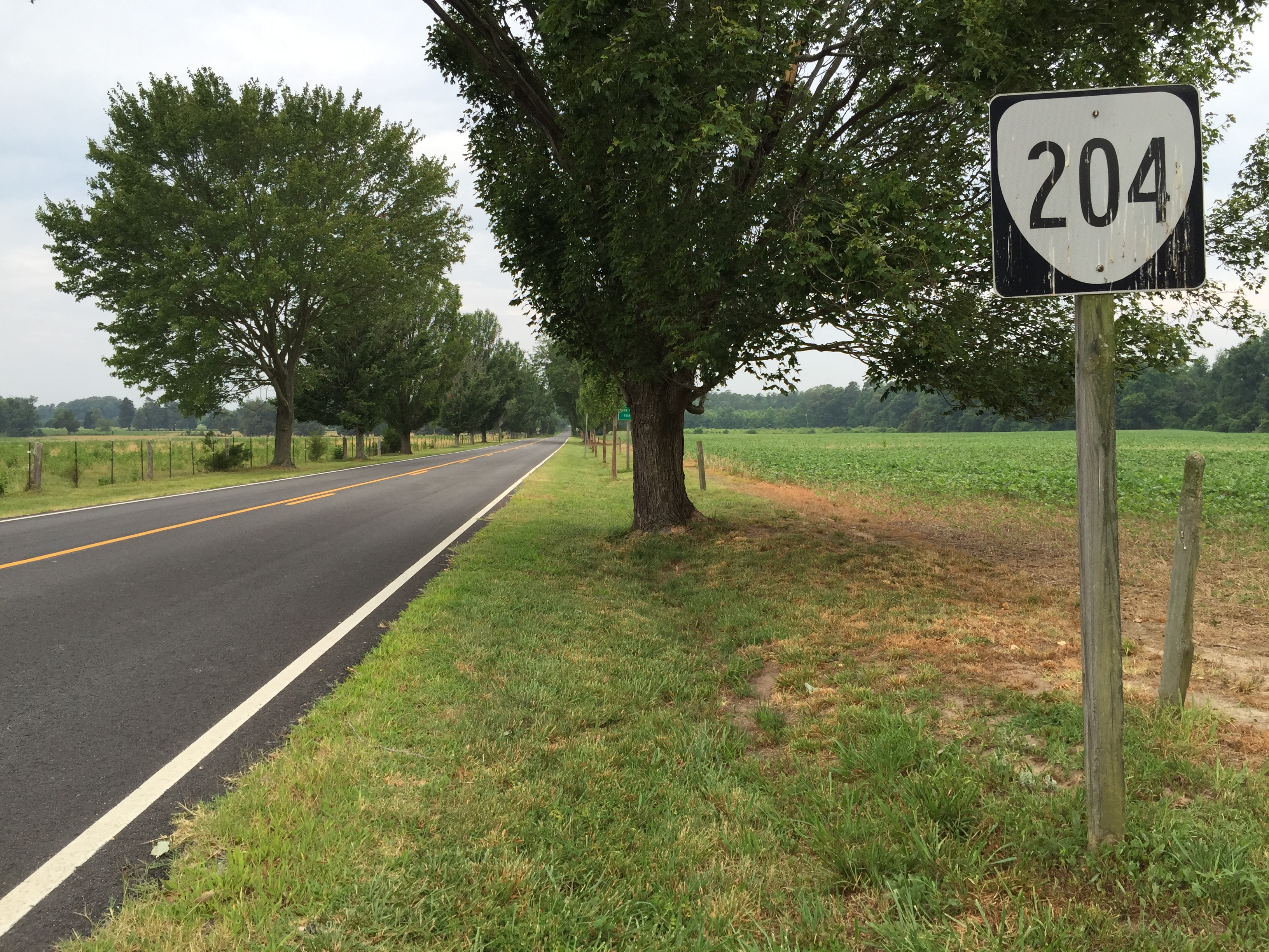 View west along Virginia State Route 204 (Popes Creek Road) at the entrance to the George Washington Birthplace National Monument in Westmoreland County, Virginia